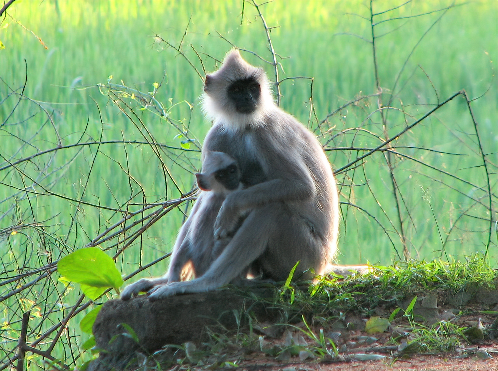 Tufted Gray Langur (Semnopithecus priam) near Anuradhapura, Sri Lanka